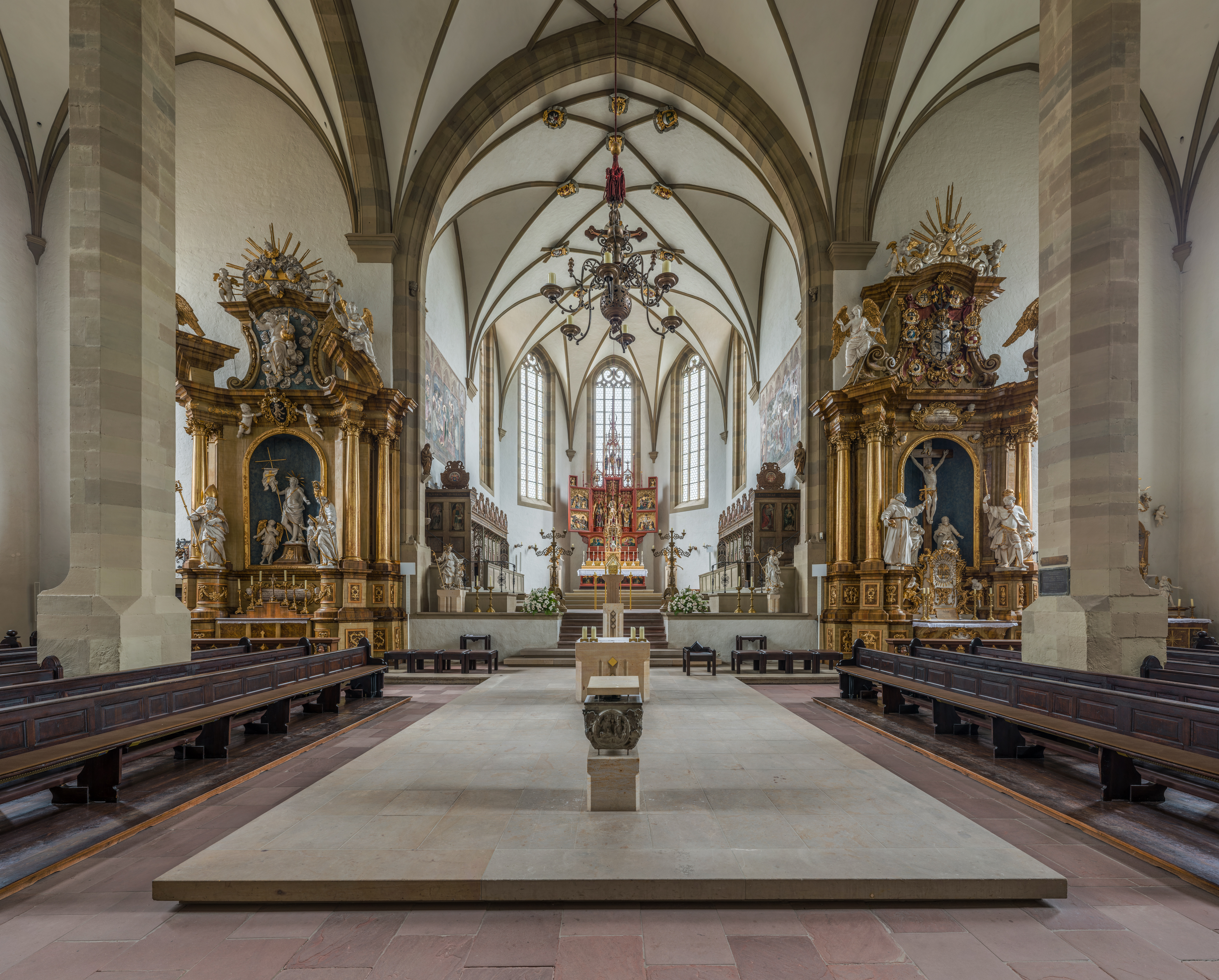 An interior view of the crossing and the altar of St. Burkard